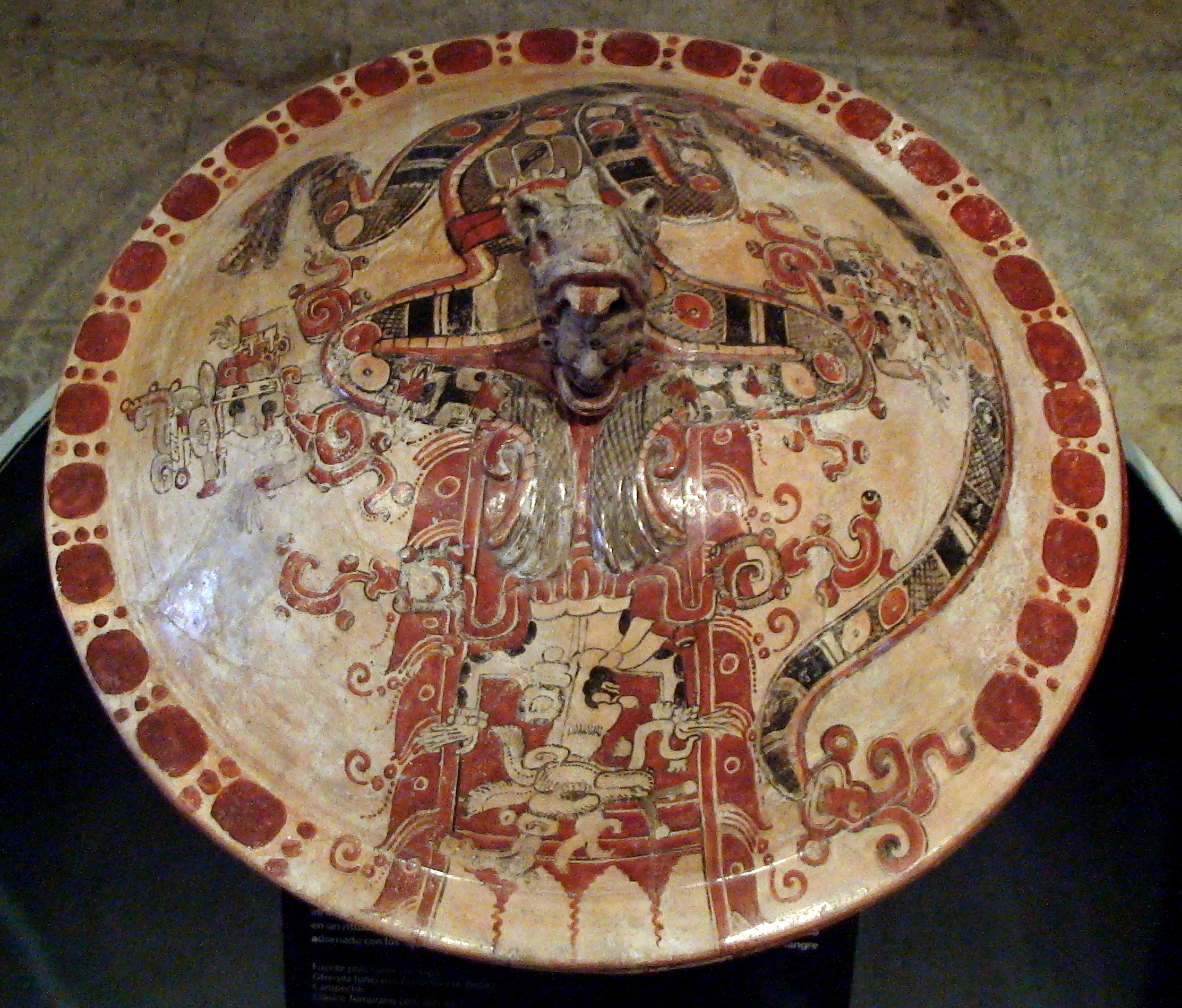 Becán, Campeche, Mexico: Lif of a bowl, showing a jaguar with a human head ion its mouth. Museum Campeche